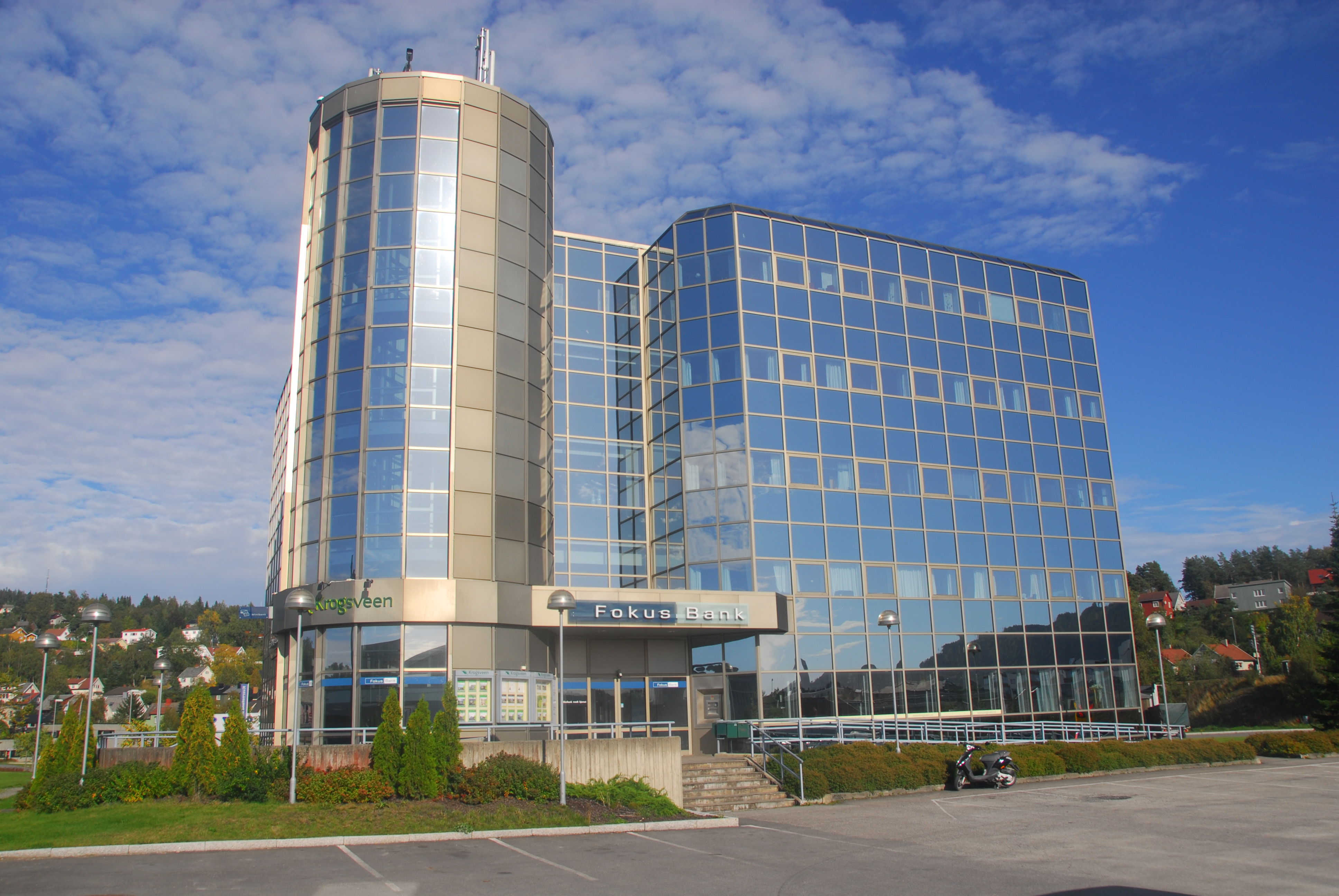 Fokus Bank offices in Steinkjer, Norway